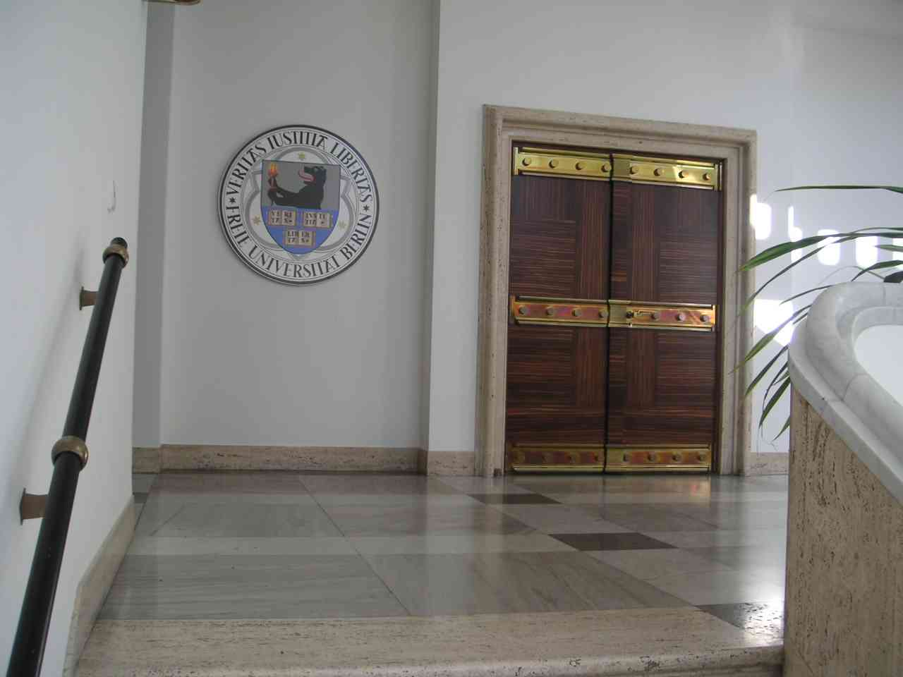 The directorate of the Free University Berlin